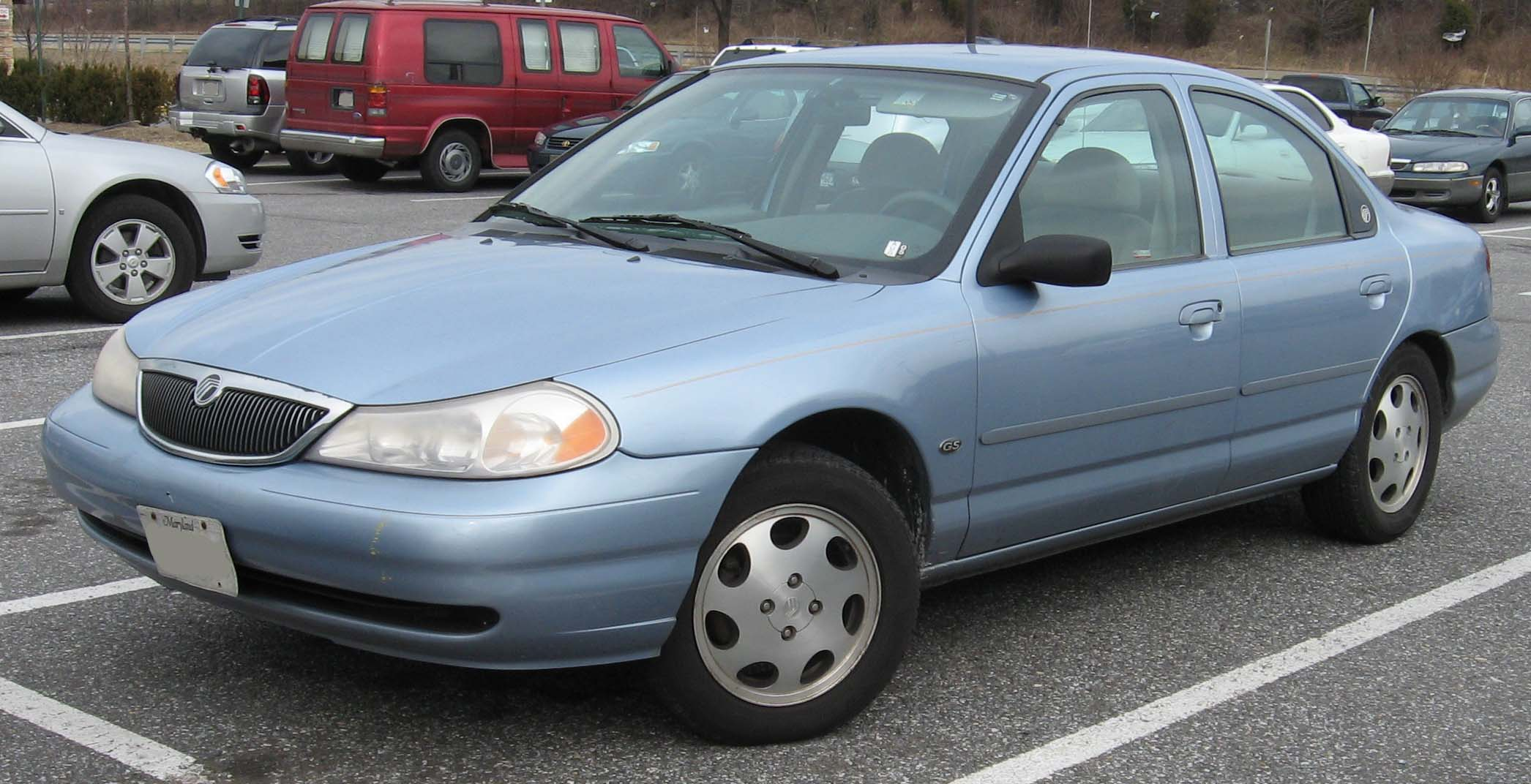 1998-2000 Mercury Mystique photographed in USA.